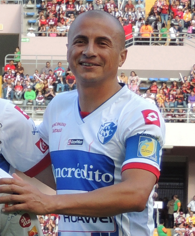 player